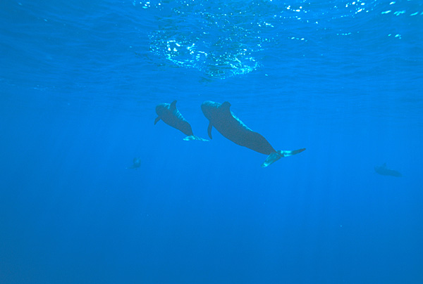 Pilot Whales, mother and calf, Kona, Hawaii. Image taken by Clark Anderson/Aquaimages.